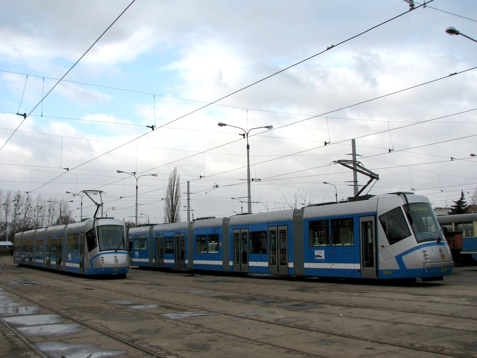 Škoda 16T trams in Wrocław, Poland